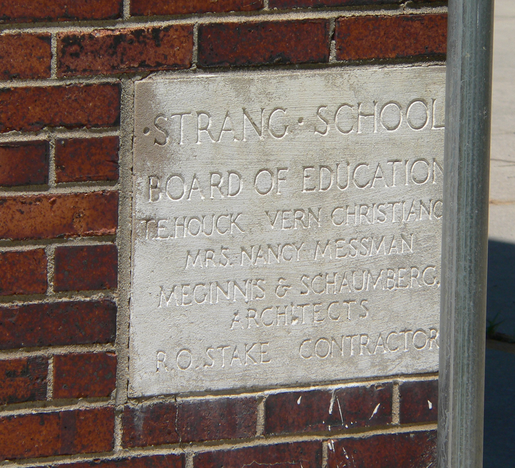 East-facing side of cornerstone at northeast corner of Strang School District No. 36 in Strang, Nebraska. The Renaissance Revival building was constructed in 1929. It is listed in the National Register of Historic Places.